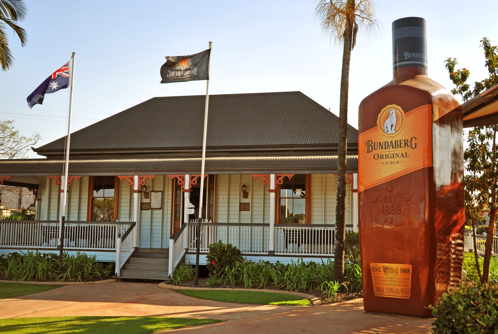 bundaberg rum bondstore